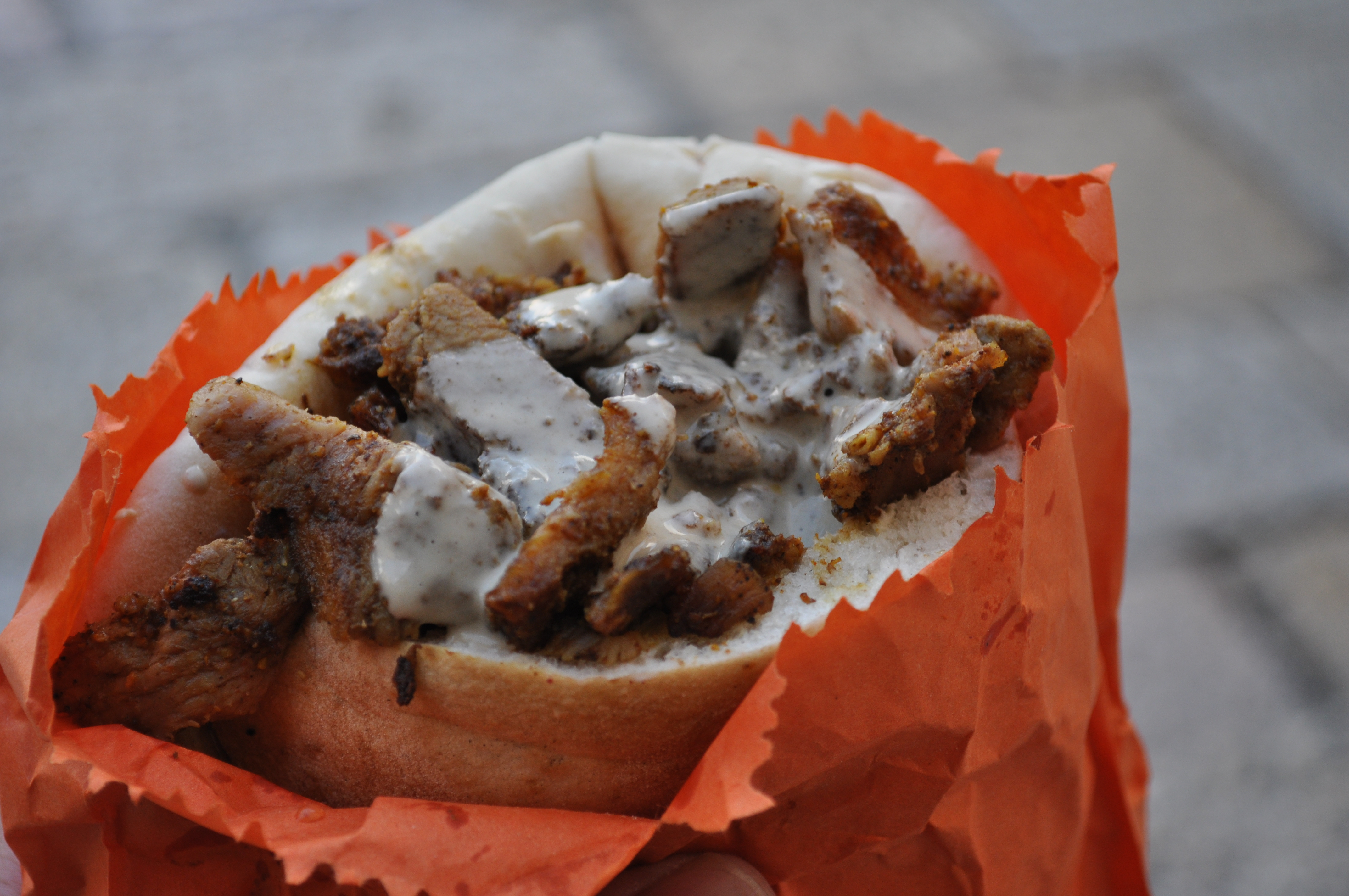 Photo taken by user in Jerusalem, Israel 2012